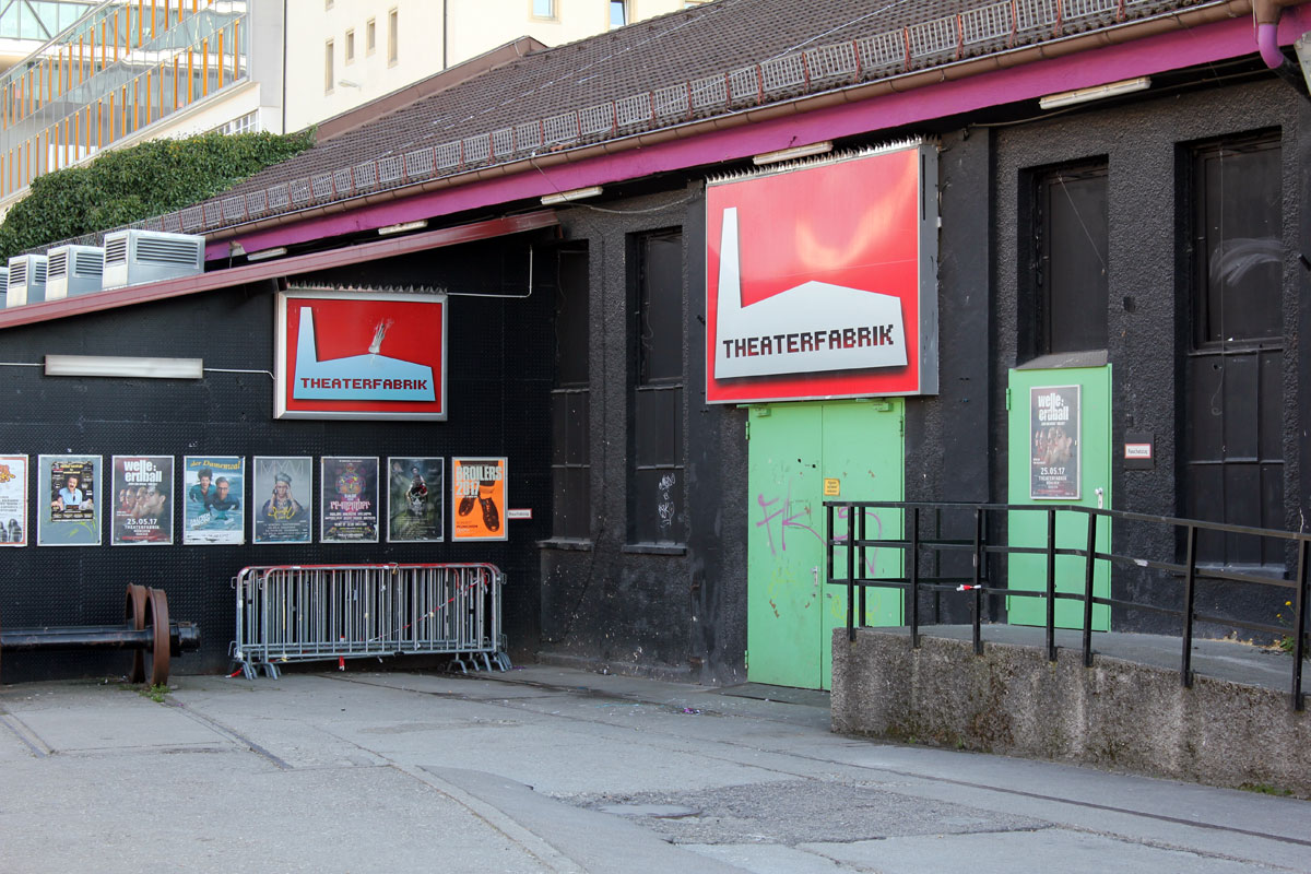 Nightclub Theaterfabrik at Optimolwerke in Munich 2017.